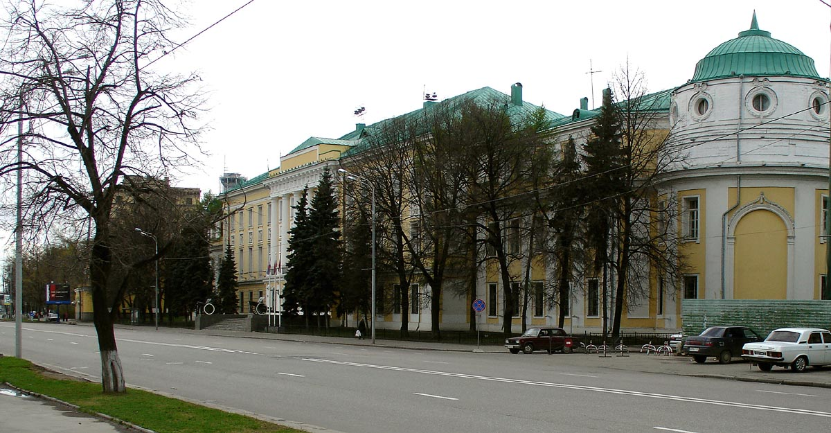 New Kriegskomissariat in Moscow. 1778-1780. Originally a logistical office and depot, this building by Nicholas Legrand now houses HQ of Moscow Military District.